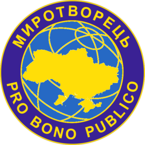 Emblem of Myrotvorets Center